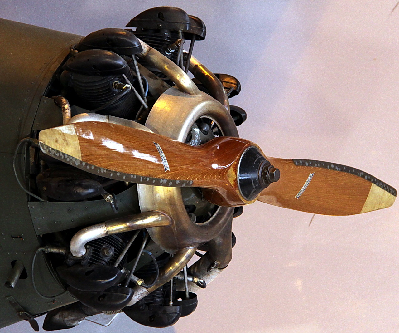 Focke-Wulf FW 44 Stieglitz (SZ-4) in Aviation Museum of Central Finland.